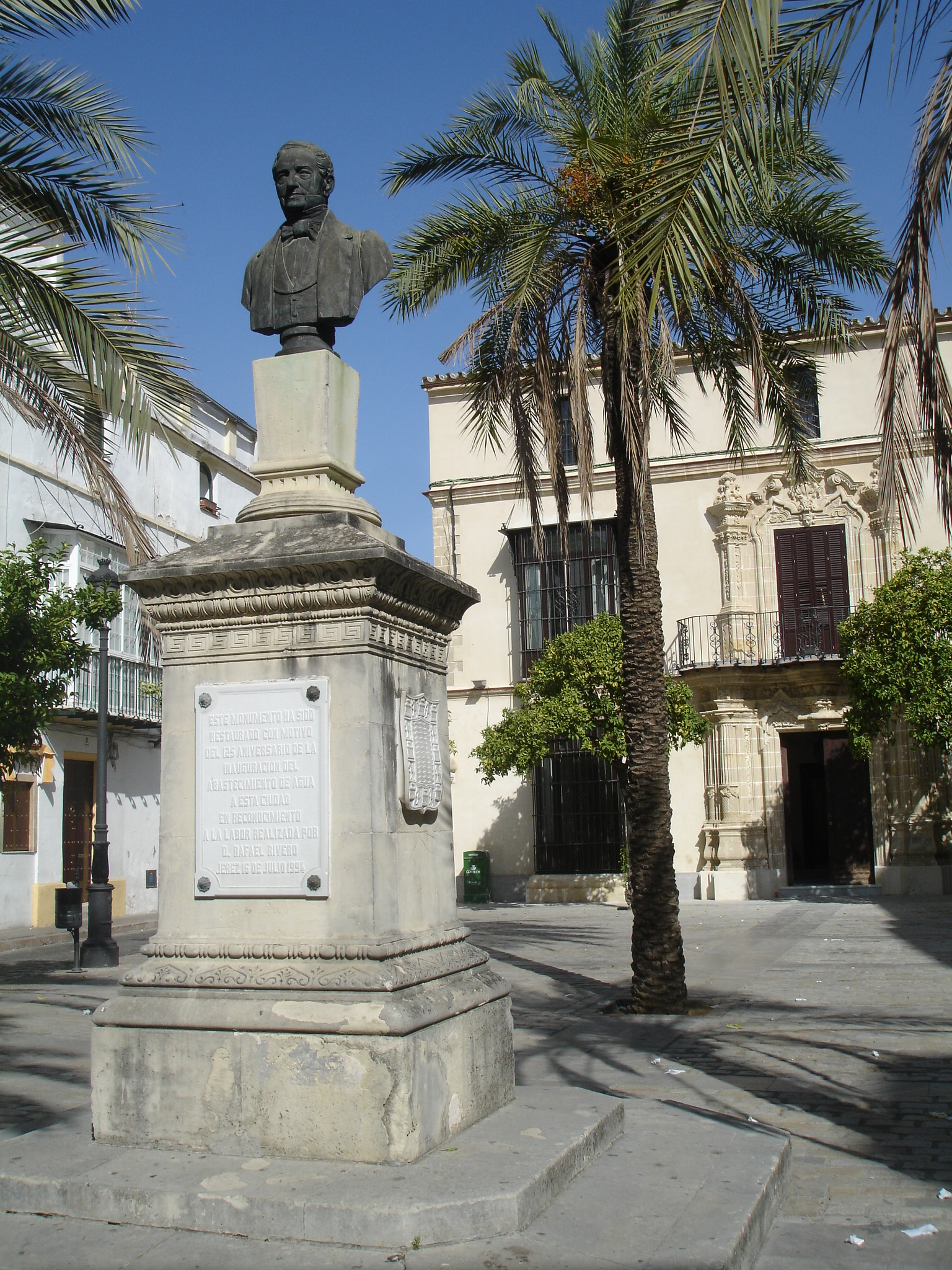 Monument to Rafael Rivero